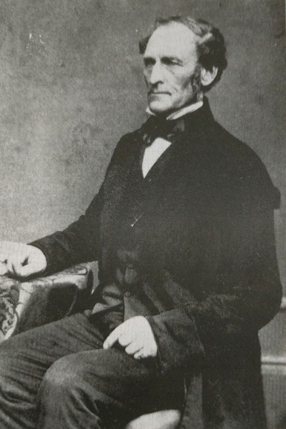 Photo of Senator C.R. Bill sitting